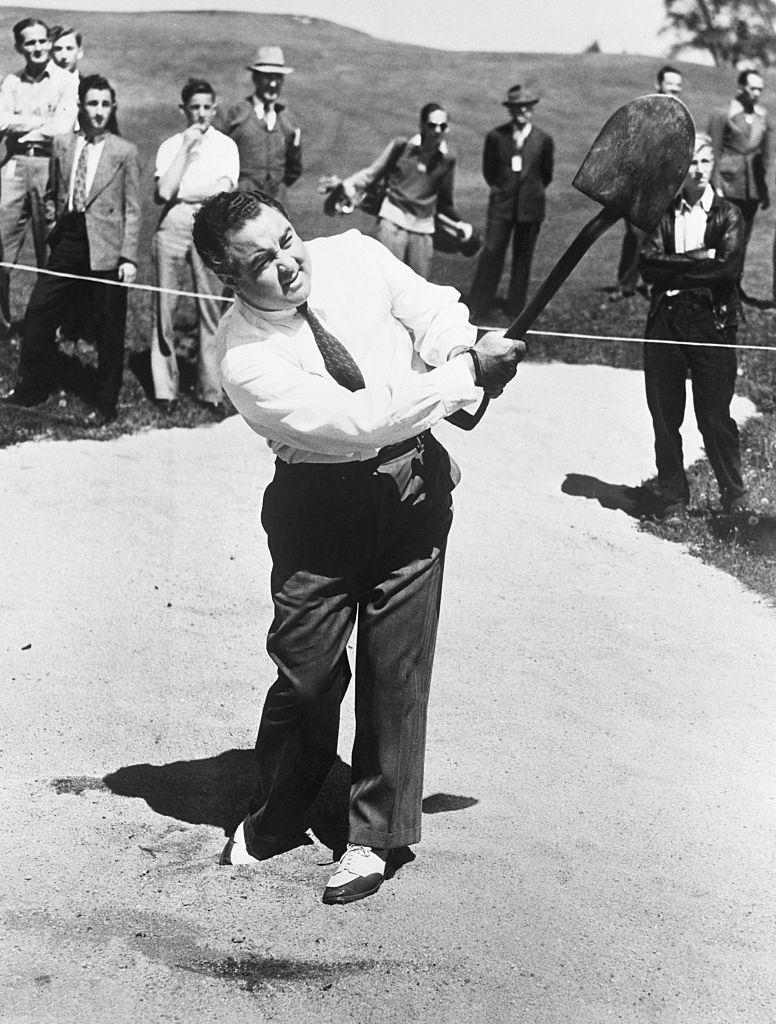 1939 Press Photo Trick shot golfer John Montague to compete in US Open trials